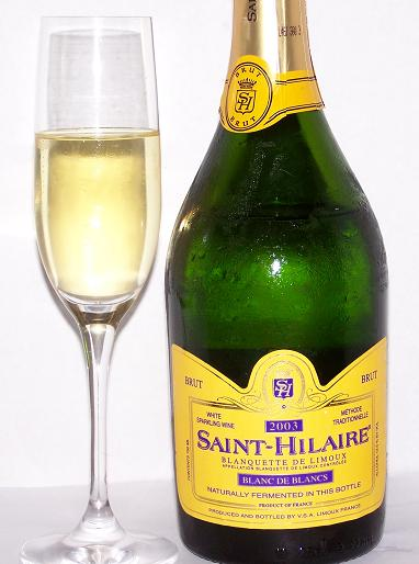 Created by self. Bottle & Glass of St. Hilaire Blanquette de Limoux